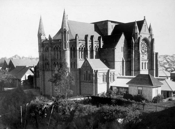 St Johns Cathedral, Ann Street, Brisbane.